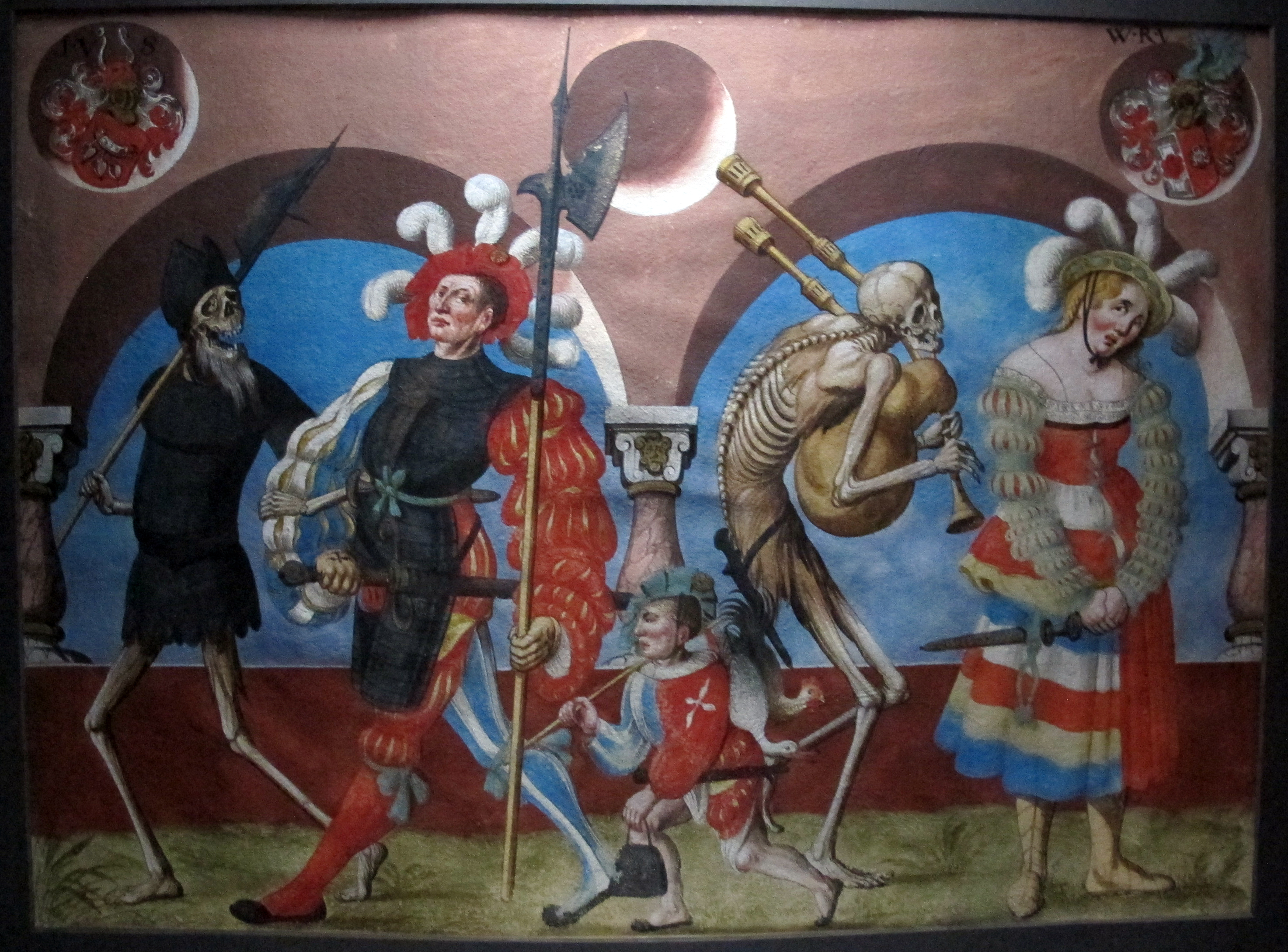 Copy of the Danse Macabre of the Dominican cemetery of Bern